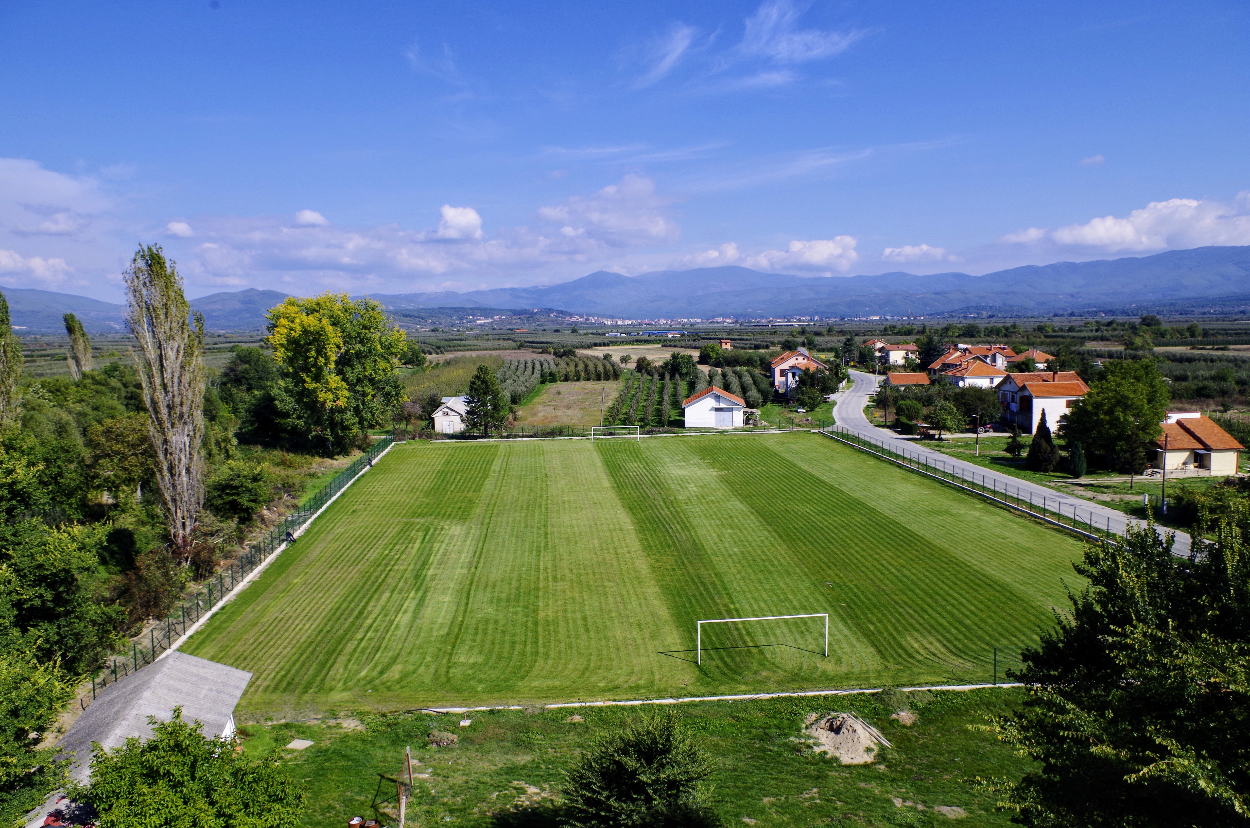 View of the village Carev Dvor